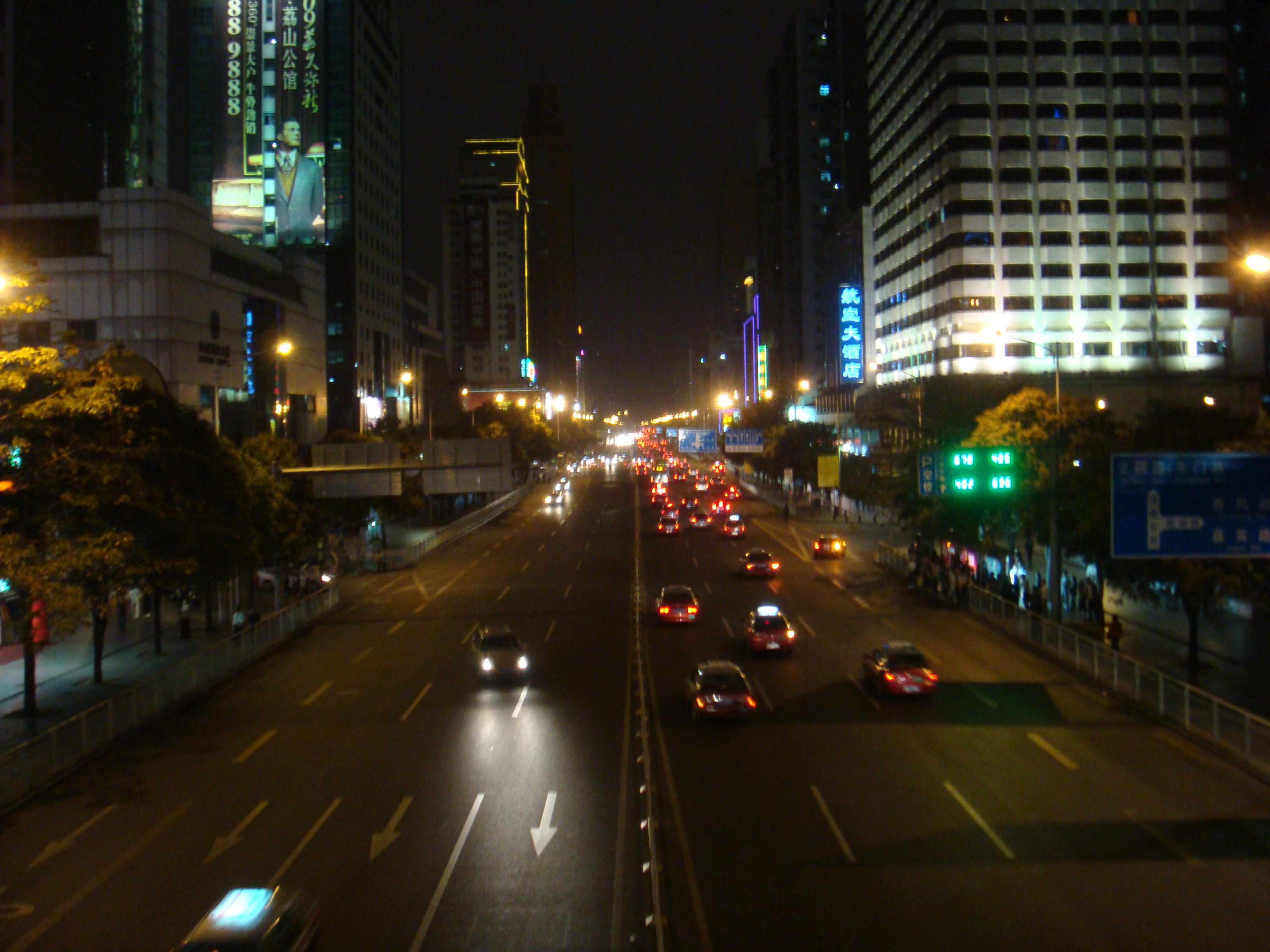 Shen Nan Rd. E East Night View